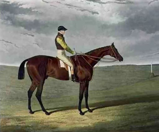 Frederick, winner of the 1829 Epsom Derby. Jockey probably John Forth. Painting by John Frederick Herring Sr. (1795-1865). Artist has been dead for 147 years.